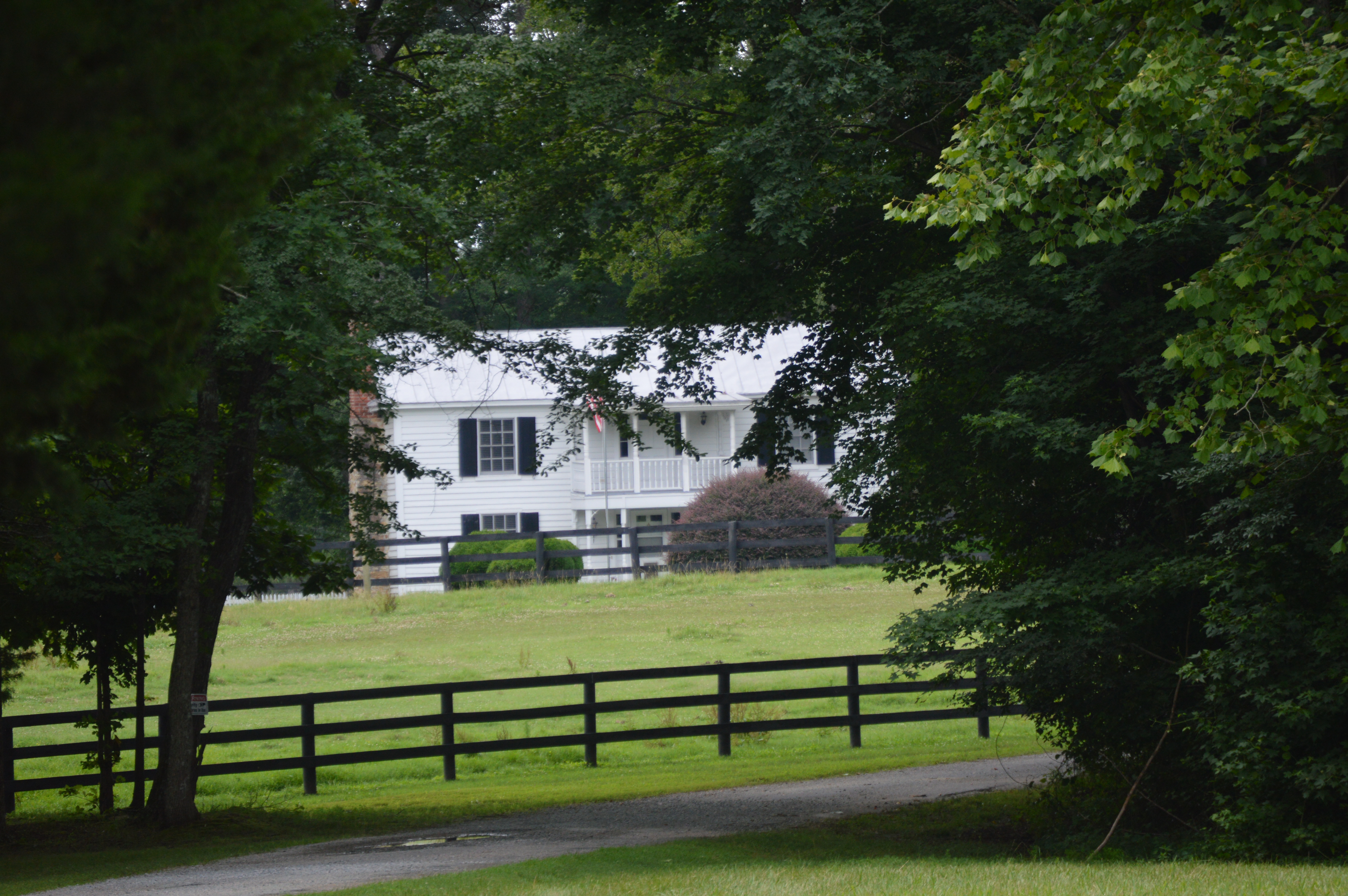 Entrance to, and a tenant house at, the Cedar Grove plantation, located at 138 Lewis Mill Road south of Clarksville in Mecklenburg County, Virginia, United States. The property is listed on the National Register of Historic Places.